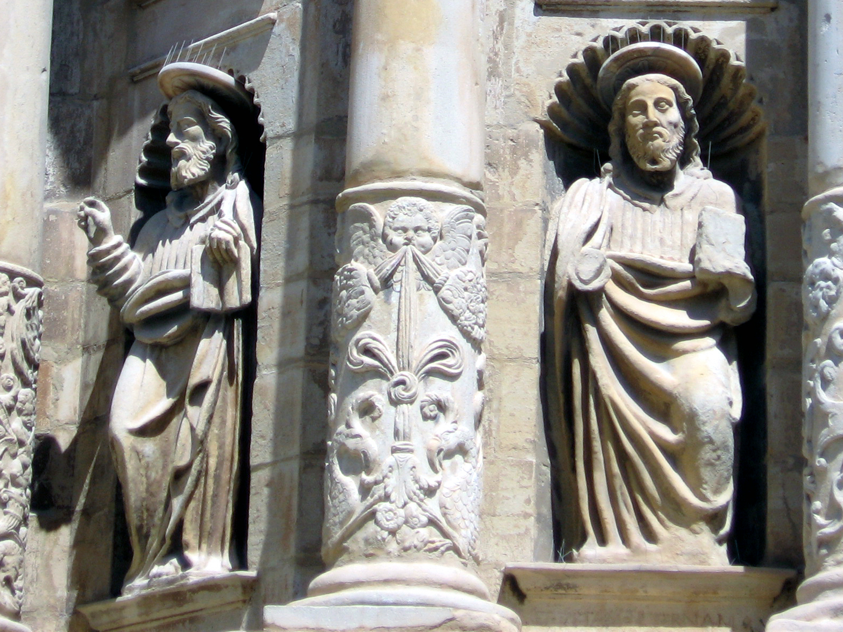 Detail of the church of Santa Maria in Montblanc in the province of Tarragona (Catalonia).